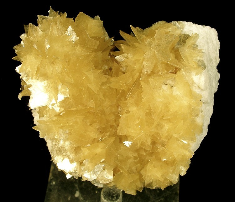 Muscovite Locality: Coronel Murta, Jequitinhonha valley, Minas Gerais, Southeast Region, Brazil (Locality at ) Size: 6.6 x 6.0 x 3.2 cm. A striking specimen of highly lustrous, yellow star mica crystals richly covering the starkly contrasting, sculptural, white feldspar matrix on this fine specimen from a new find at Coronel Murta, Brazil.